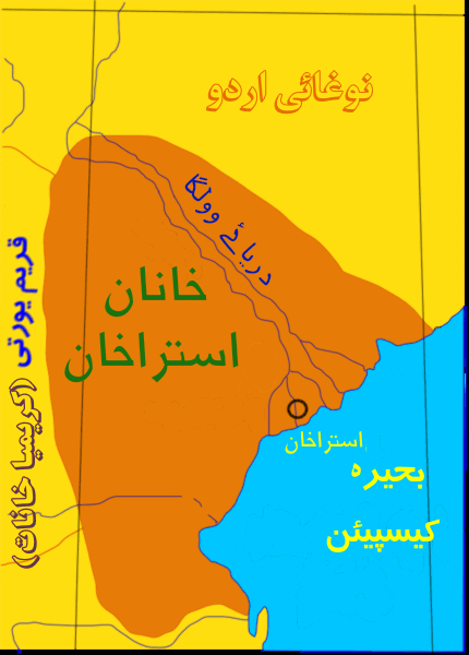 Map of Astrakhan Khanate in Punjabi.